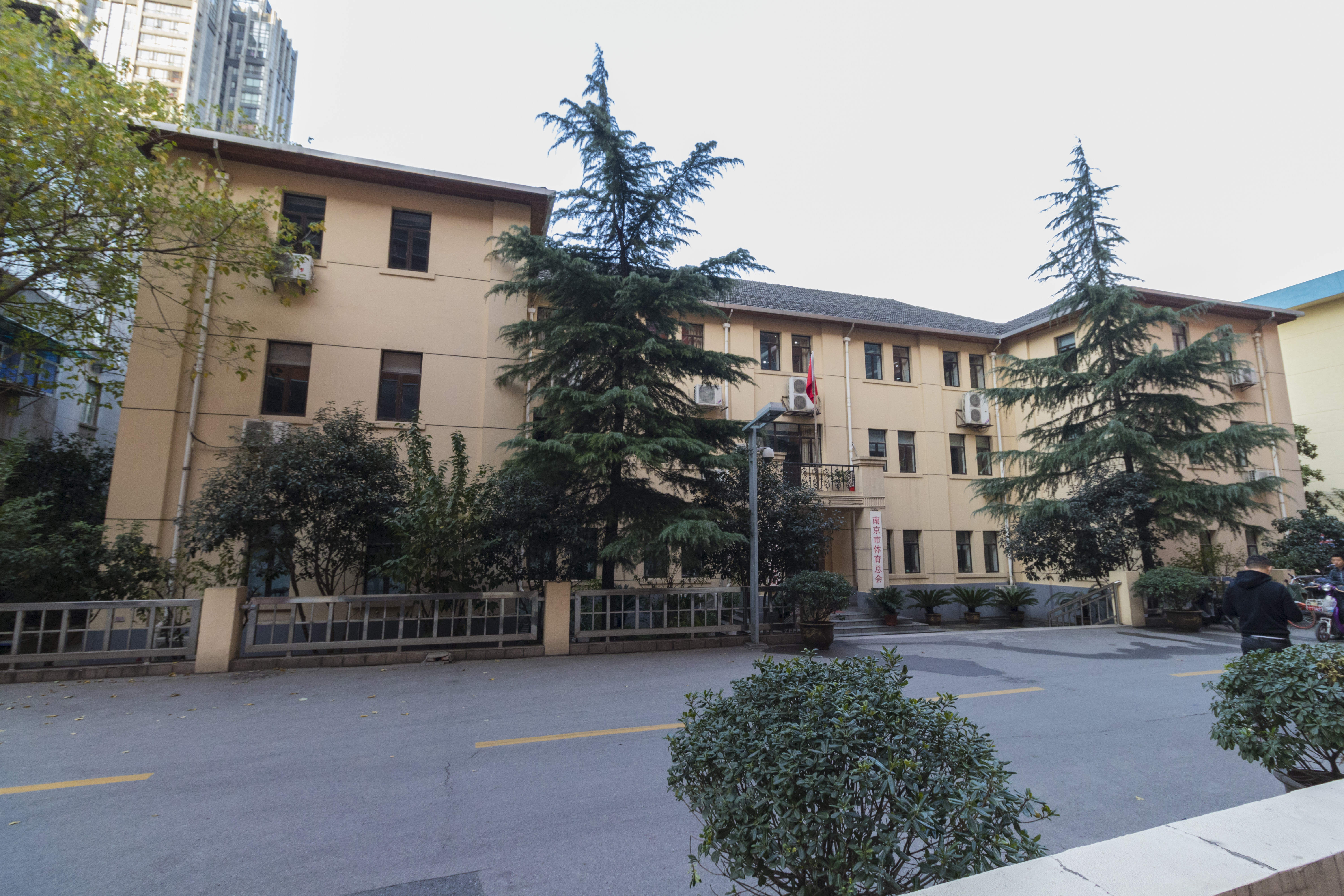 Former site of Ministry of Economic Affairs of the Nationalist Government 中文（中国大陆）: 国民政府经济部旧址